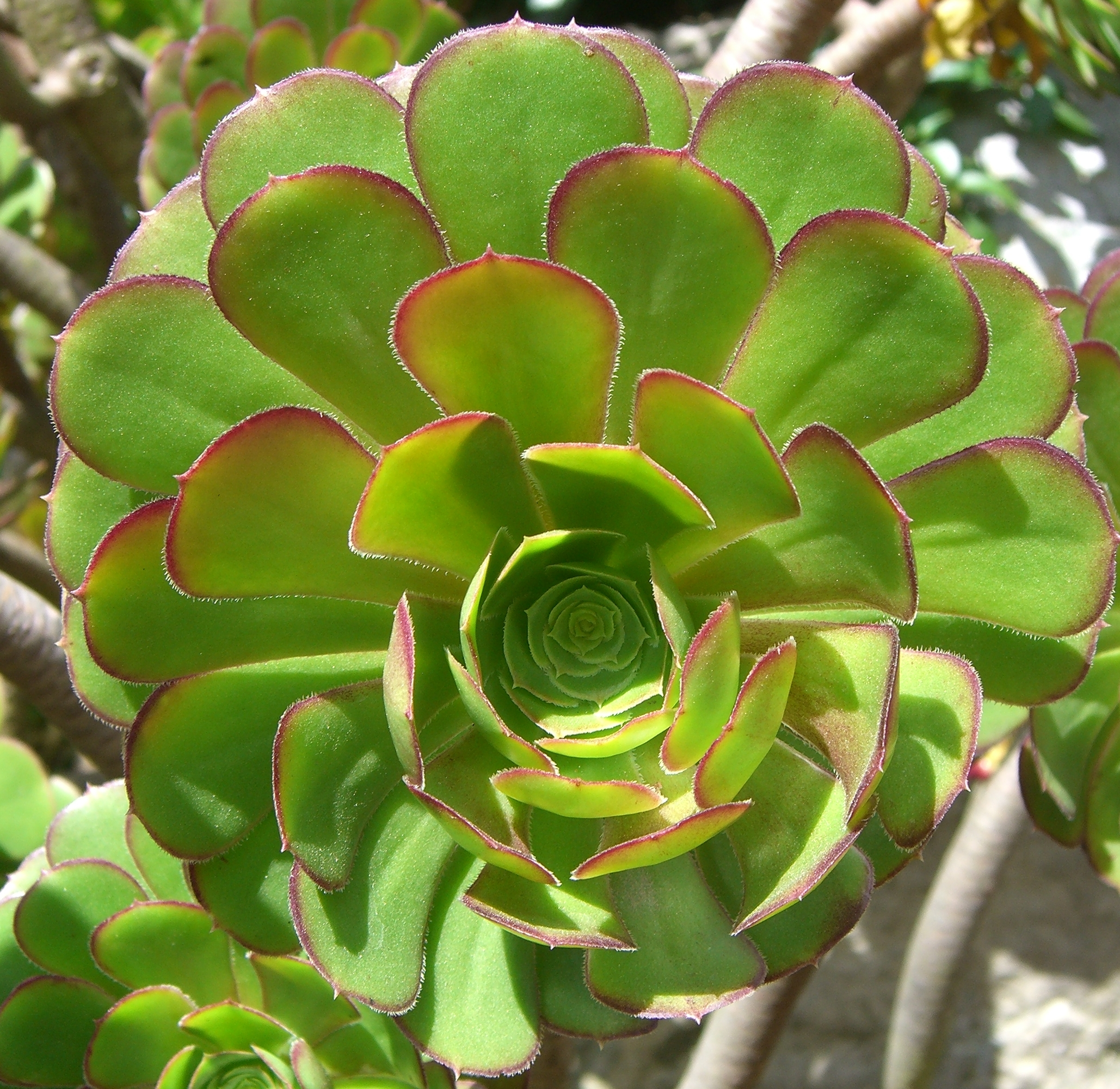 Please report references to .